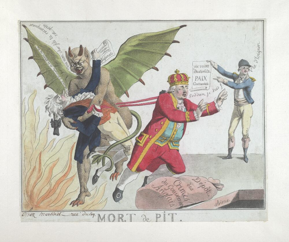 French political cartoon; References: De Vinck, No. 8066.